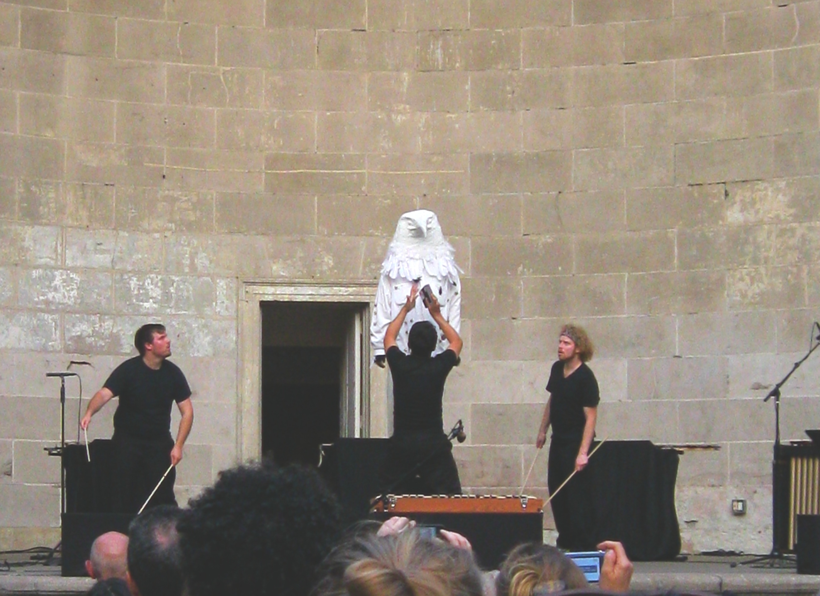 A performance by Iktus Percussion (Chris Graham, Josh Perry, Steve Sehman, Chris Howard, Piero Guimaraes, and Dennis Sullivan) with Derek Kwan (electronics) of Karlheinz Stockhausen's Musik im Bauch at the Naumberg Bandshell in Central Park, New York City, on Thursday, June 21, 2012. (Co-presented by Goethe-Institut and New York Virtuoso Singers as part of Make Music New York.) Player 1 "searches inside the stomach with his hand, pulls out a small wooden box, looks around, sees one of the small tables … goes there, places the box on the table, finds the cover of the box, opens it, and the music box melody … begins".